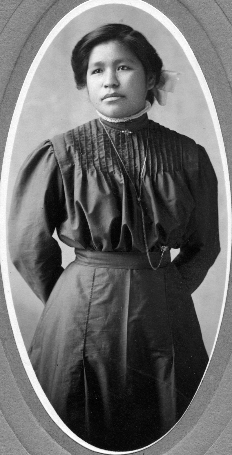 2013-0139m Polingaysi Qoyawayma (Elizabeth Q. White) ca. 1914 Newton, KS photographer: McDaniel, Newton, Kansas source: Leonore (Friesen) Klassen, 2000